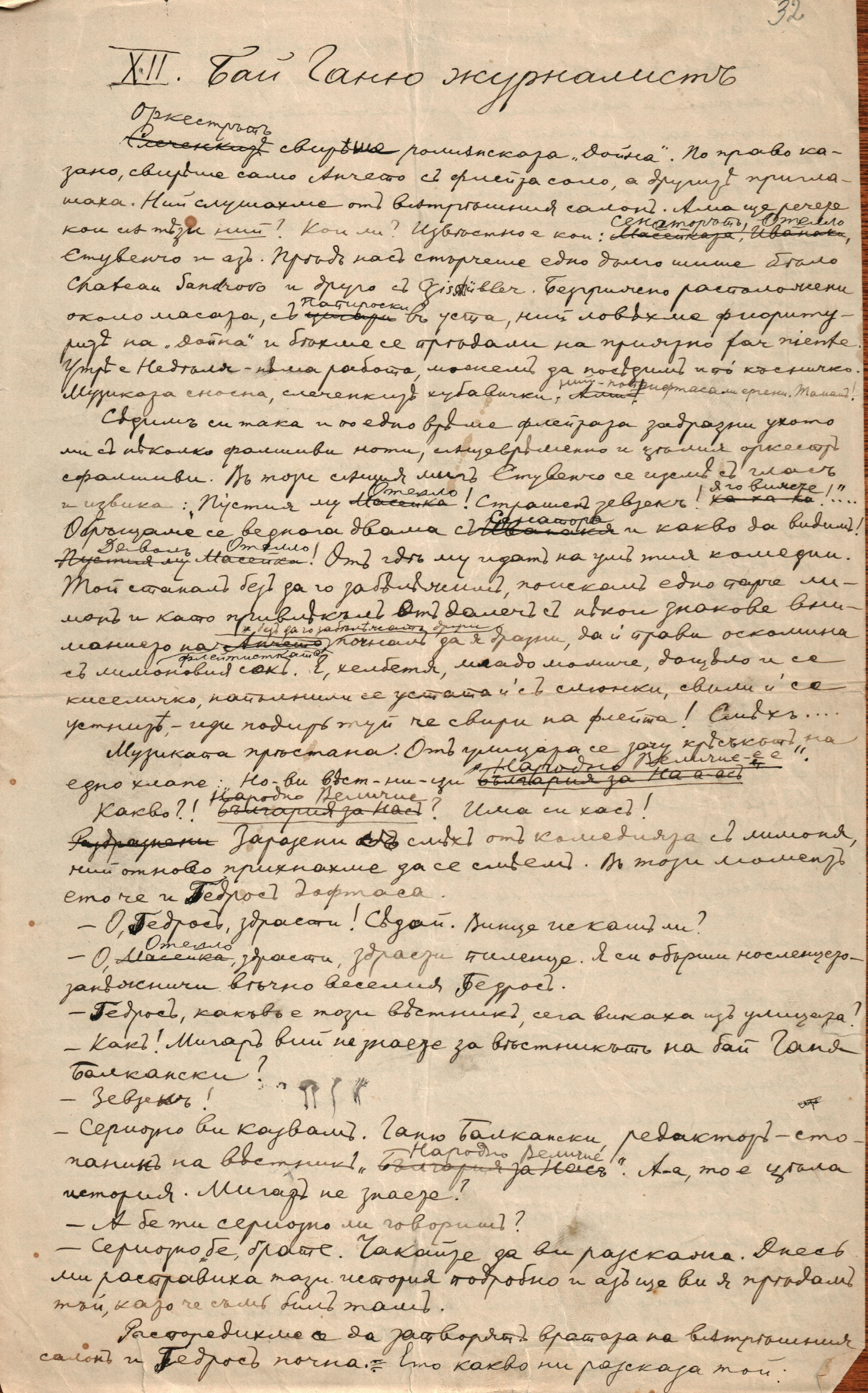 Bay Ganyo is a journalist, feuilleton by bulgarian writer Aleko Konstantinov. Manuscript, 1895.